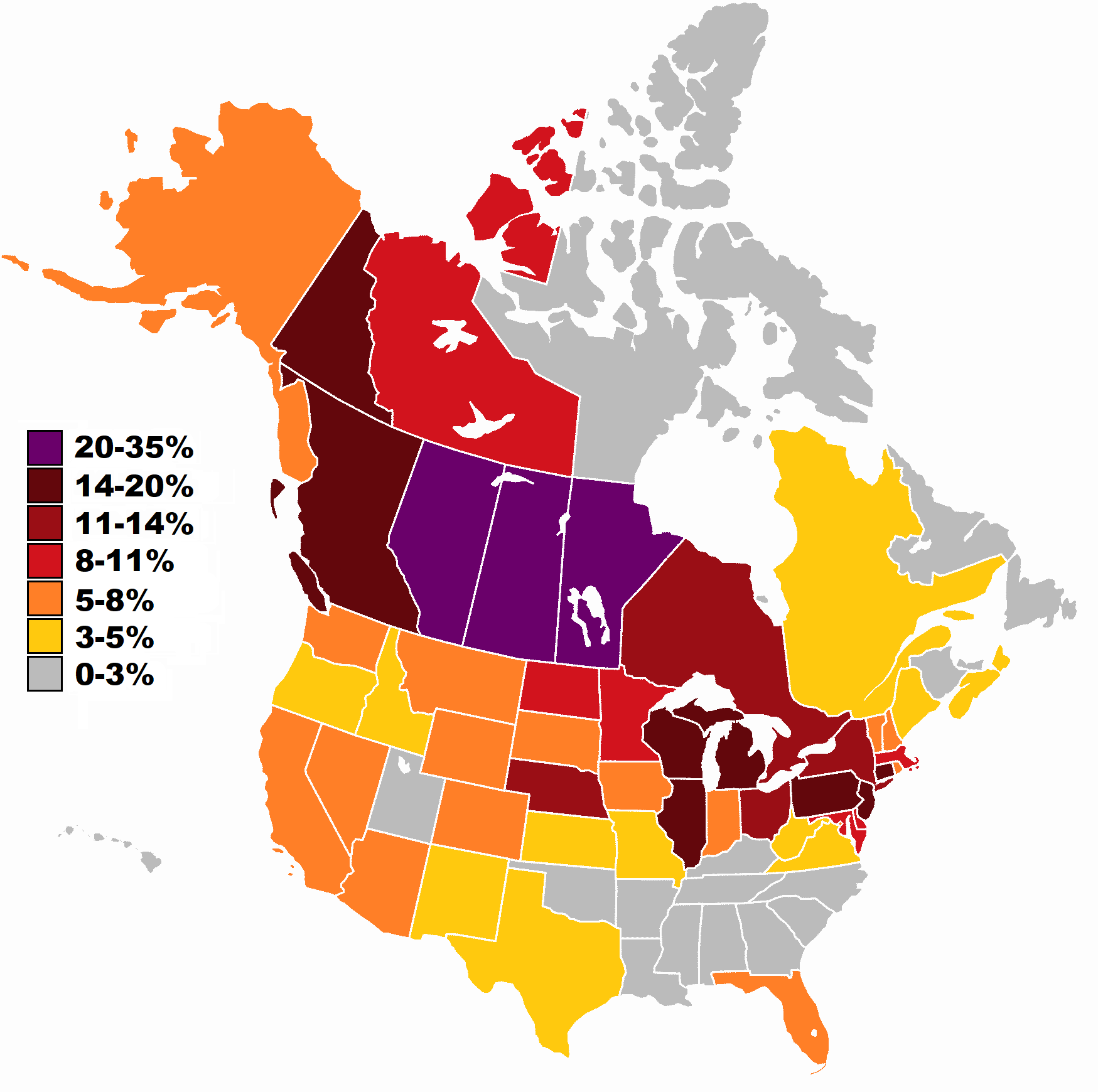 Slavs in the USA (1990 census) and Canada (2016 census). Legend: 20-35% 14-20% 11-14% 8-11% 5-8% 3-5% 0-3%